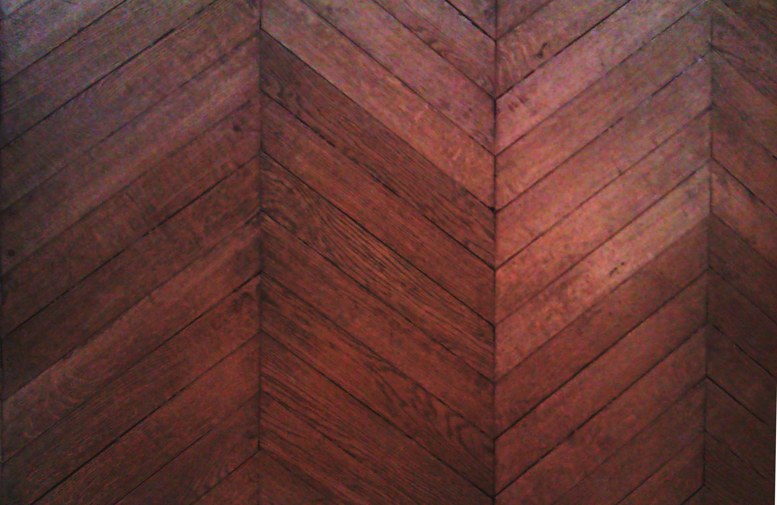 Wooden flooring, "point de Hongrie" style. Typical of parisian floor.